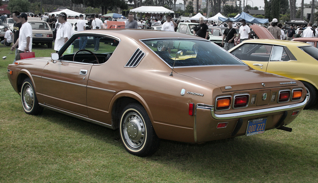 1972 Toyota Crown MS60 Coupé